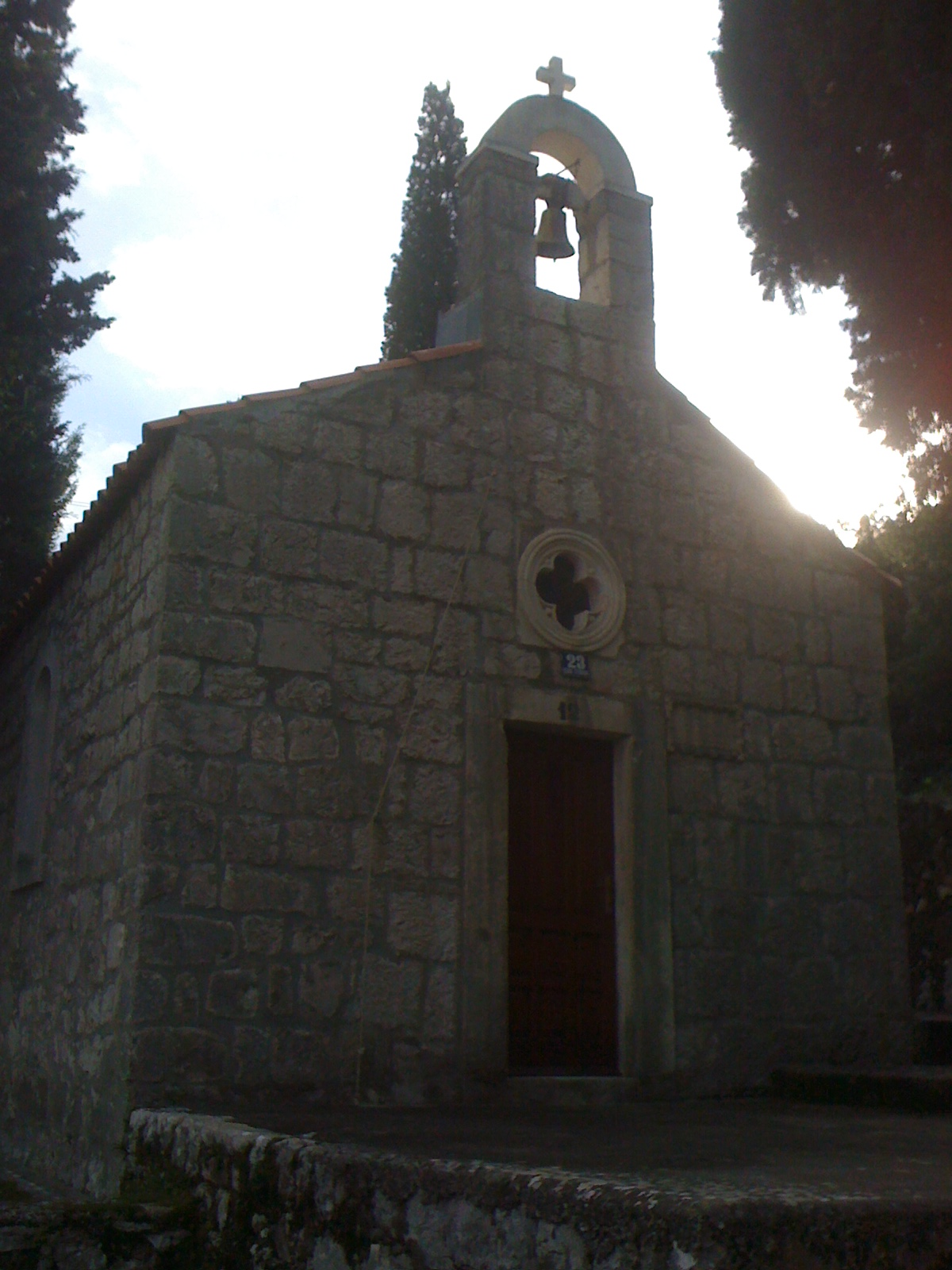 St. Nicholas church, Duba Stonska